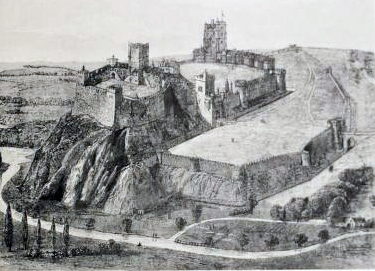 A reconstruction of Nottingham Castle